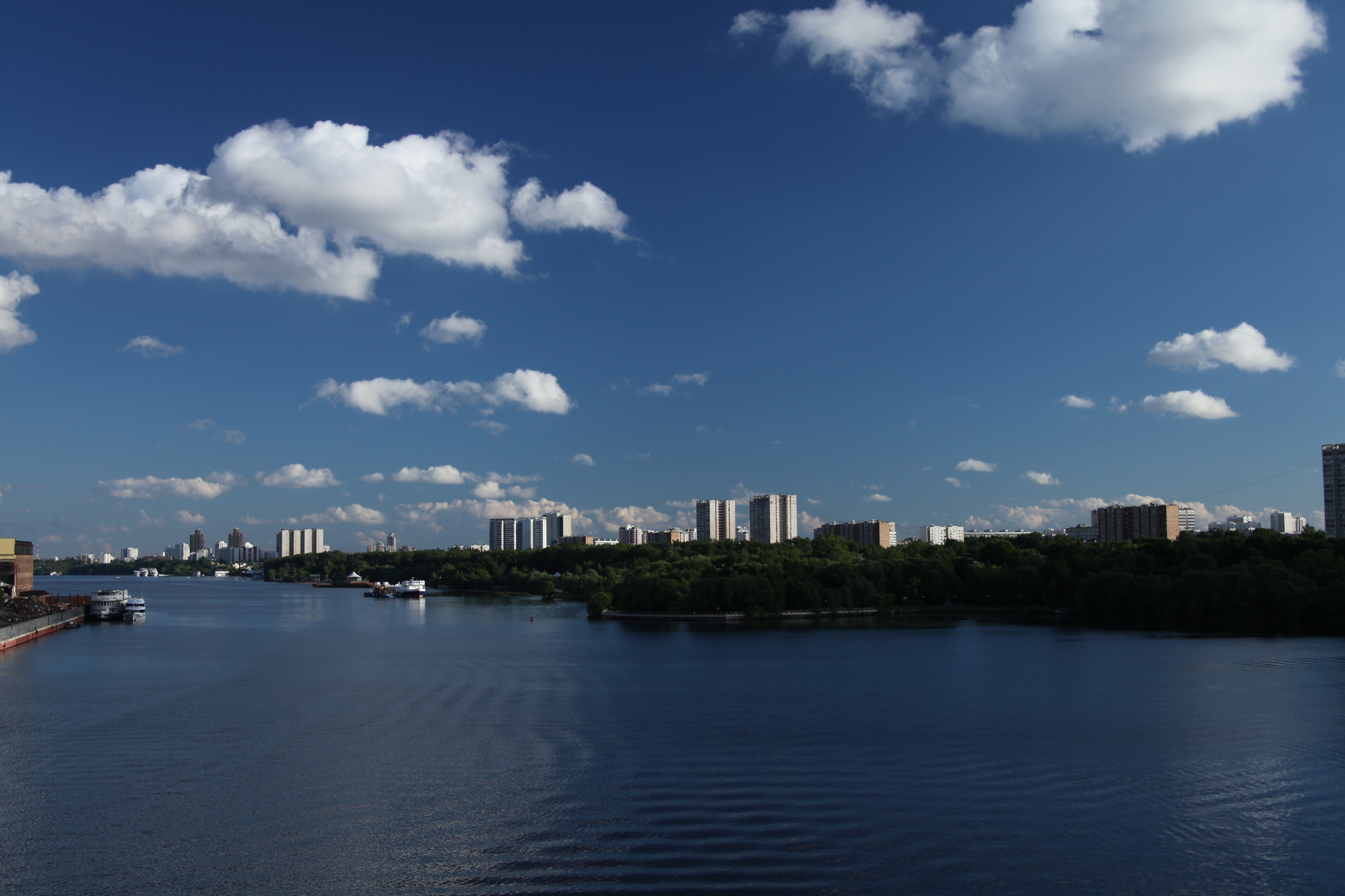 View of Khimkinskoe reservoir, Nothern Tushino district and Severnoe Tushino Park from Leningradsky bridge, Moscow